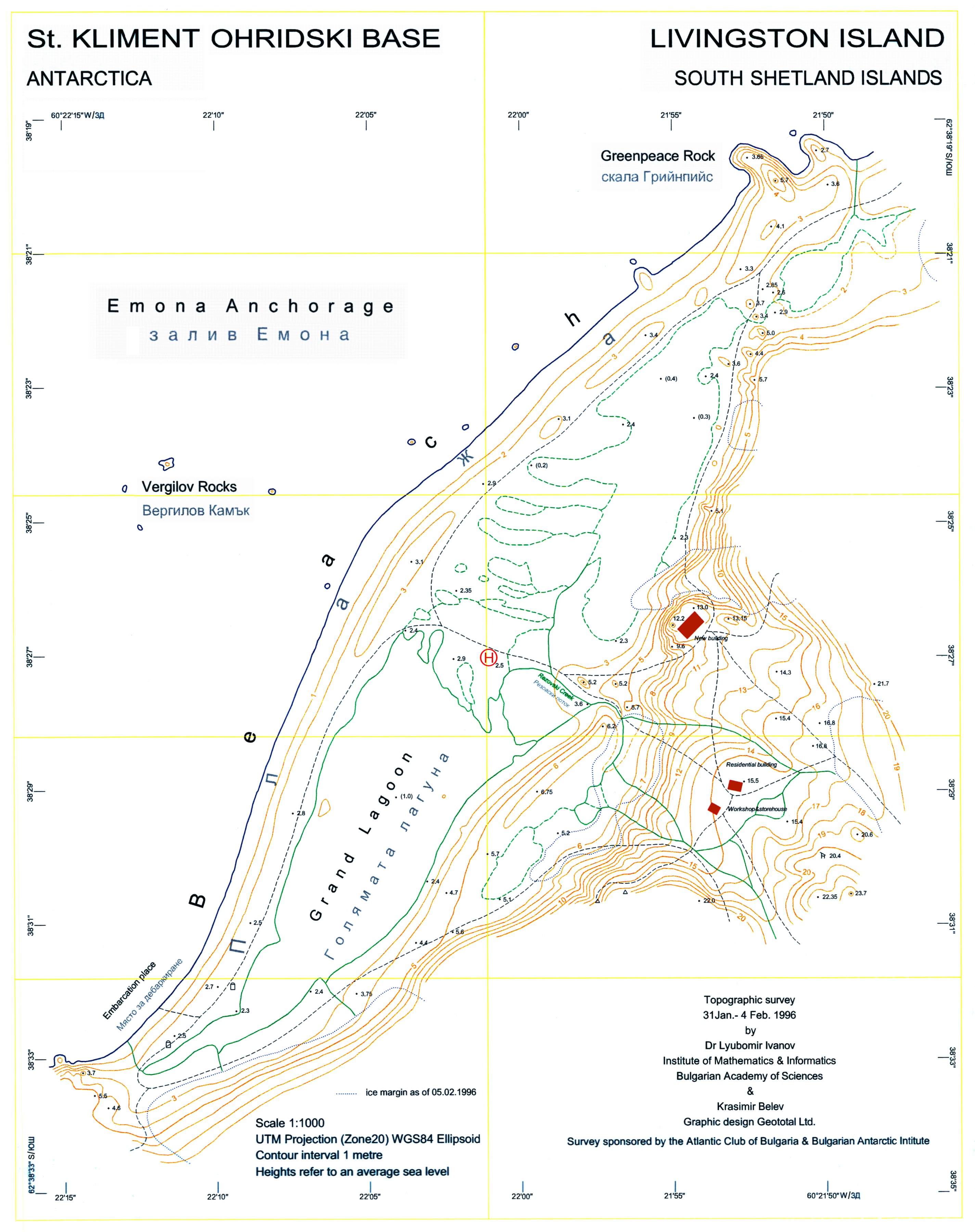 L.L. Ivanov, St. Kliment Ohridski Base, Livingston Island, 1:1 000 scale topographic map, Commissioned by the Antarctic Place-names Commission of Bulgaria, sponsored by the Atlantic Club of Bulgaria and the Bulgarian Antarctic Institute, Sofia, 1996. The first Bulgarian Antarctic topographic map. Note: 'New building' actually refers to the foundations of the new main building of the Bulgarian Base as of 1996; the building itself was completed in 1998.